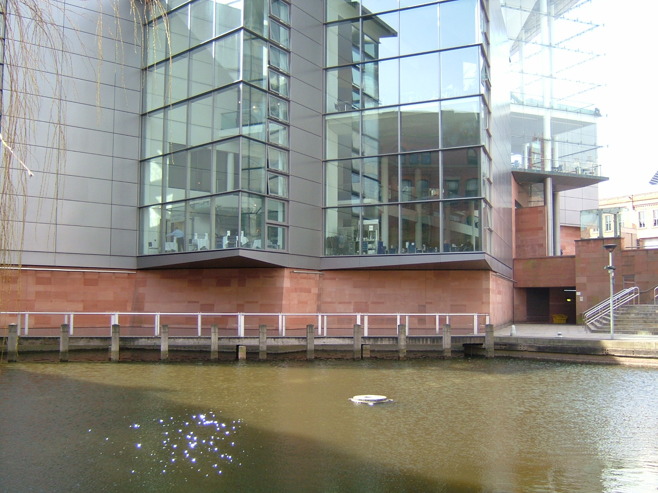 Manchester: The Bridgewater Hall Basin, on the Manchester and Salford Junction Canal with the Bridgewater Hall, behind and Manchester Central railway station in the distance.